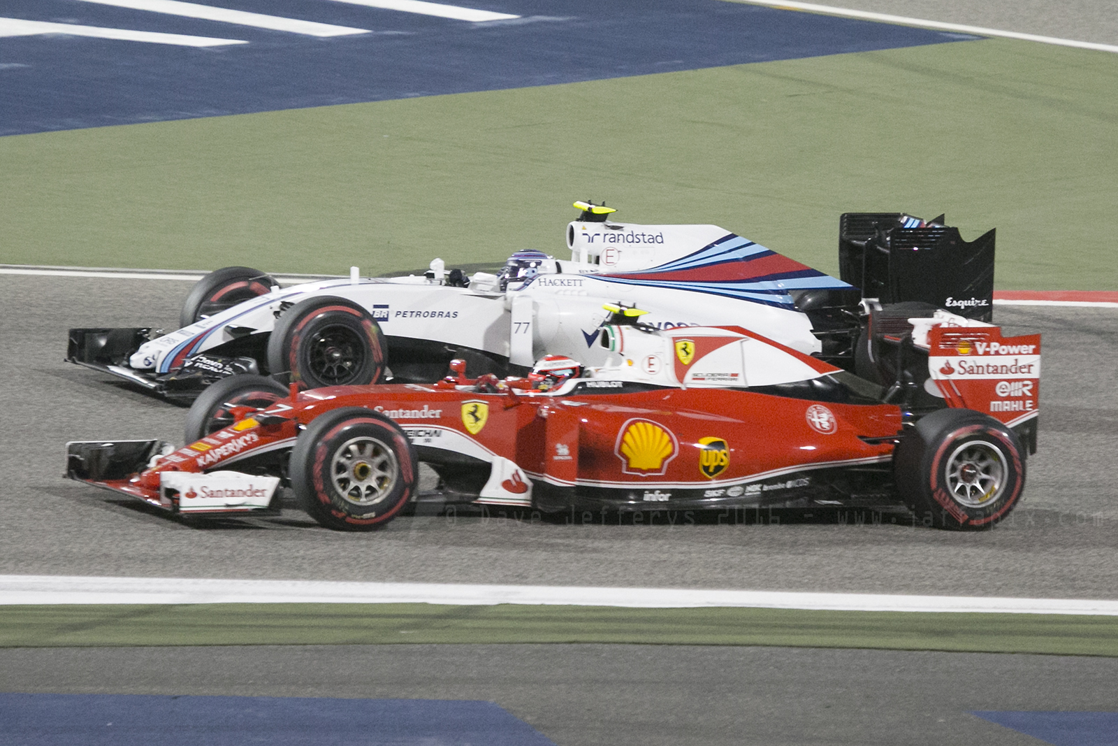 Räikkönen and Bottas at the 2016 Bahrain Grand Prix